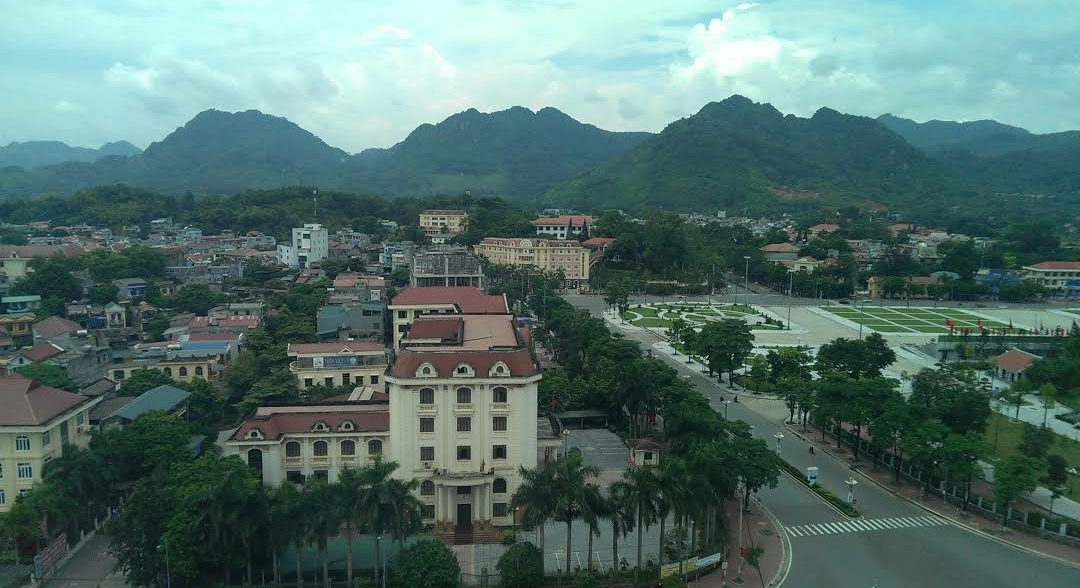 Tuyên Quang